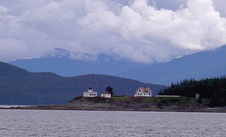 photo of Point Retreat, Mansfield Peninsula, Admiralty Island, southeast Alaska, USA viewed from the west, including lighthouse and associated buildings; Shelter Island and mainland peaks in the background